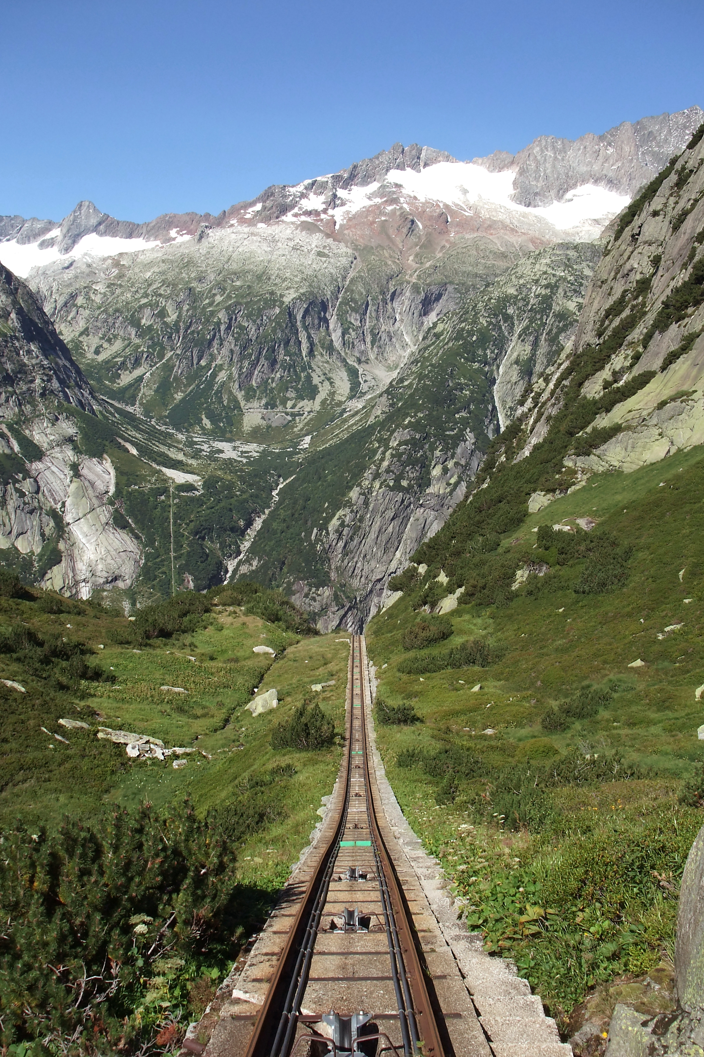 View from the Gelmerbahn funicular between Grimsel pass road and Gelmersee to the Golegghorn. For more information, see the Wikipedia article Gelmerbahn.